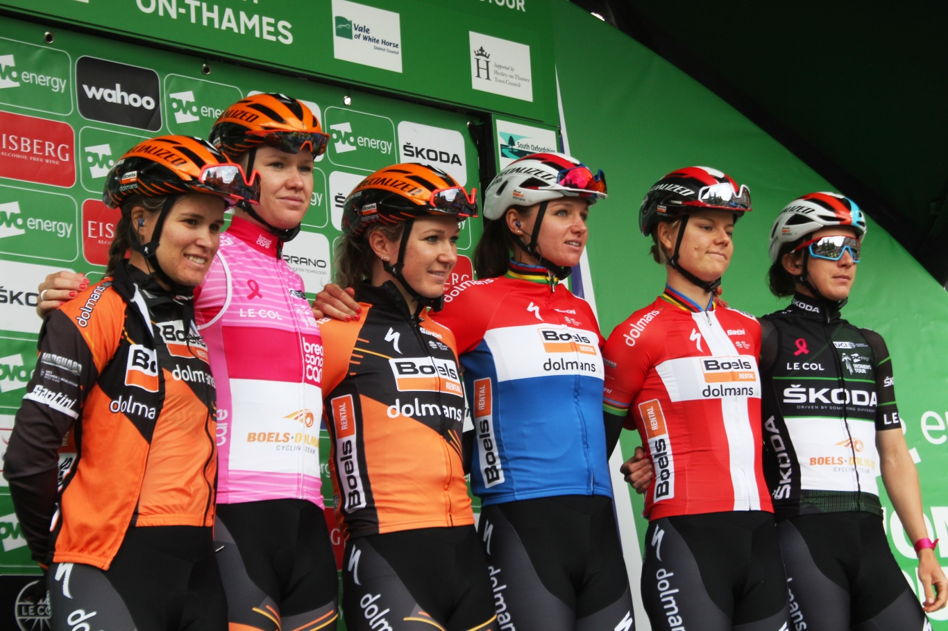 The Boels Dolmans team at the start of the third stage of the 2019 Women's Tour. The riders are Chantal Blaak, Karol Ann Canuel, Jolien D'Hoore (in the pink points jersey), Amalie Dideriksen, Christine Majerus (in the black queen of the mountains jersey) and Amy Pieters.